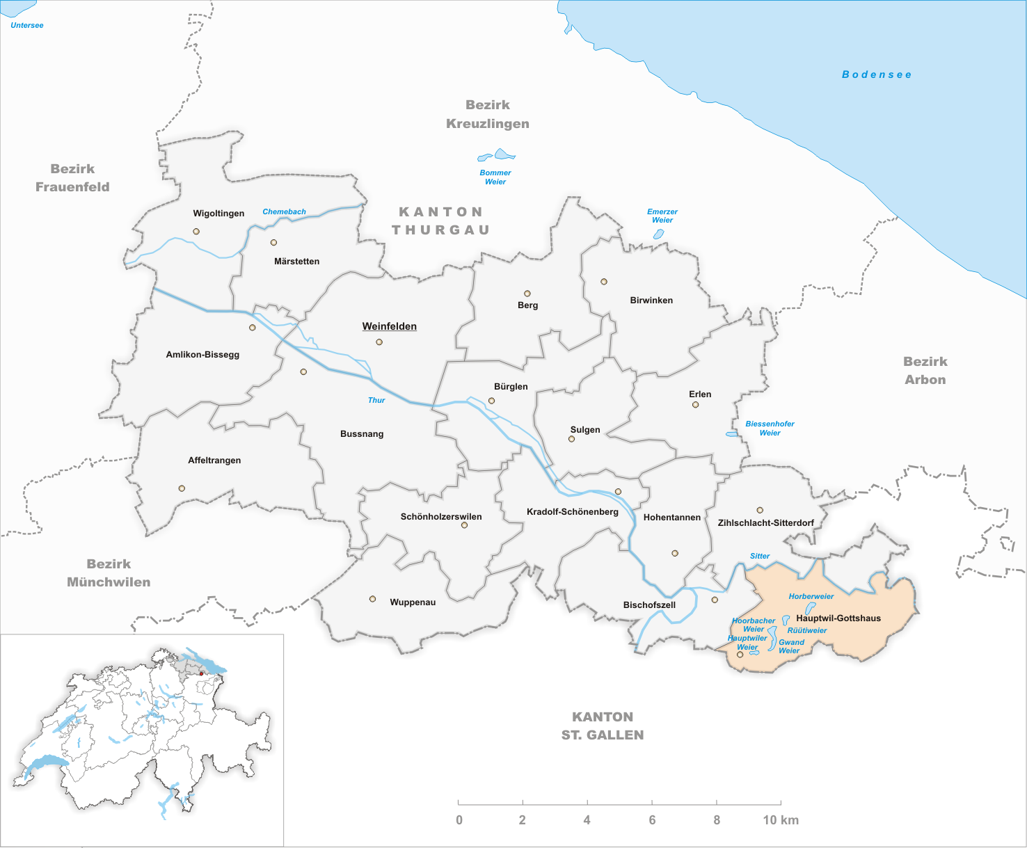 Municipality Hauptwil-Gottshaus